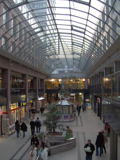 Inside view of the Oderturm shopping area in Frankfurt (Oder). Self made.